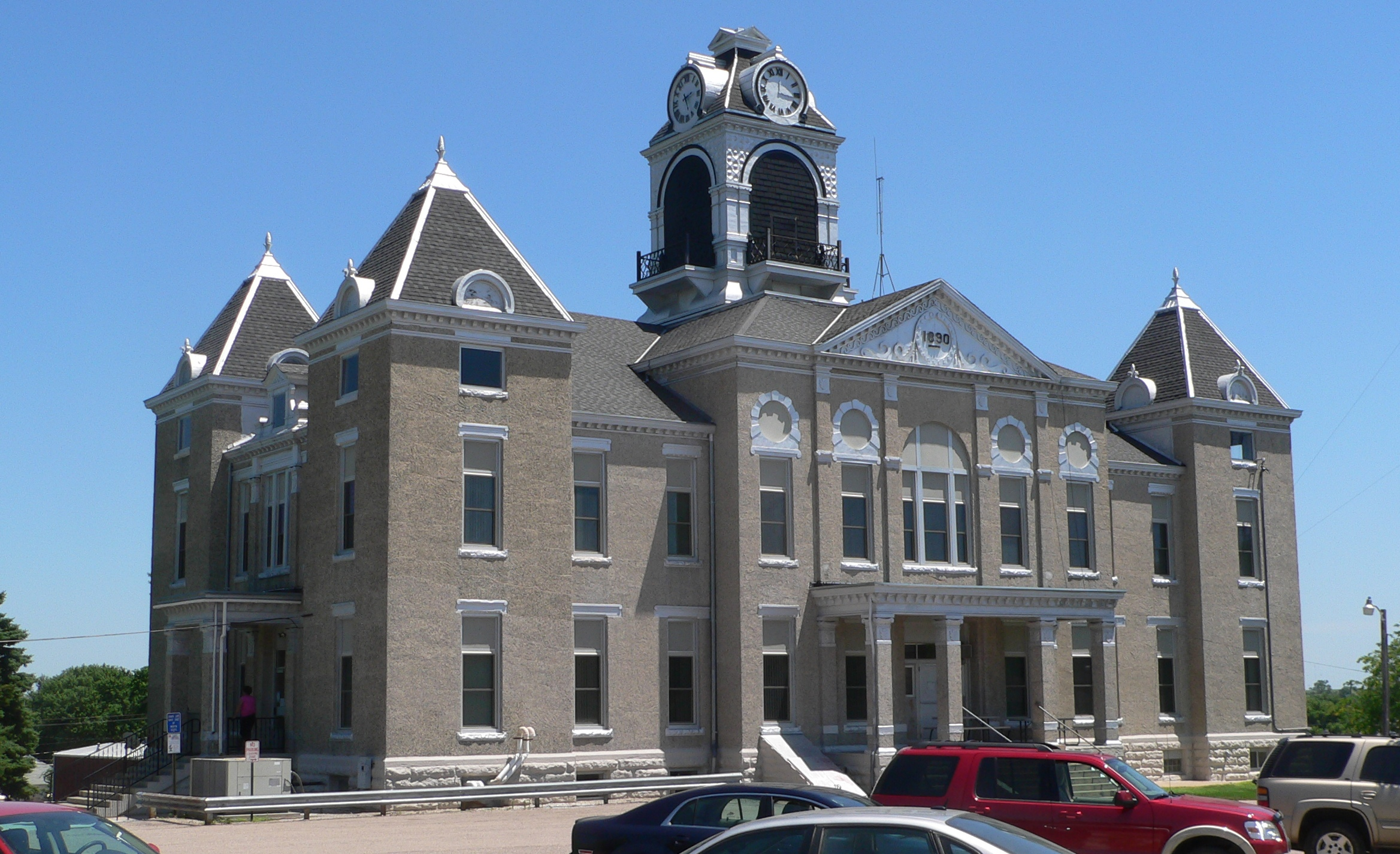 Nuckolls County Courthouse in Nelson, Nebraska; seen from the northwest. The Classical Revival courthouse was built in 1890, and is listed in the National Register of Historic Places. At the time the photo was taken, the north, east, and south faces of the tower clock displayed the correct time; the west face did not.